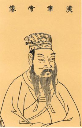 Emperor Zhang of Han (汉章帝), personal name Liu Da (刘炟)